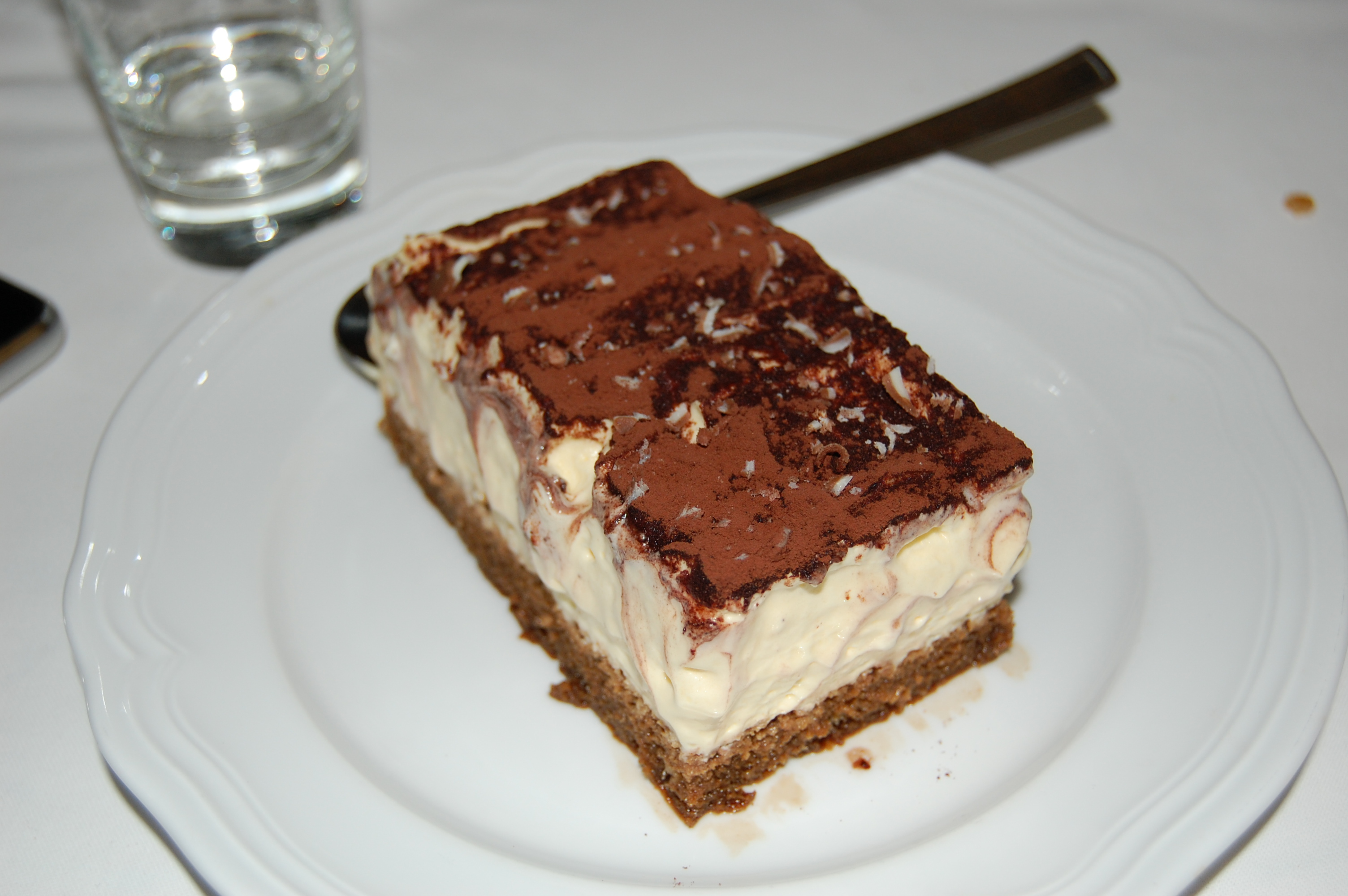 Tiramisu desserts from a Serbian restaurant.